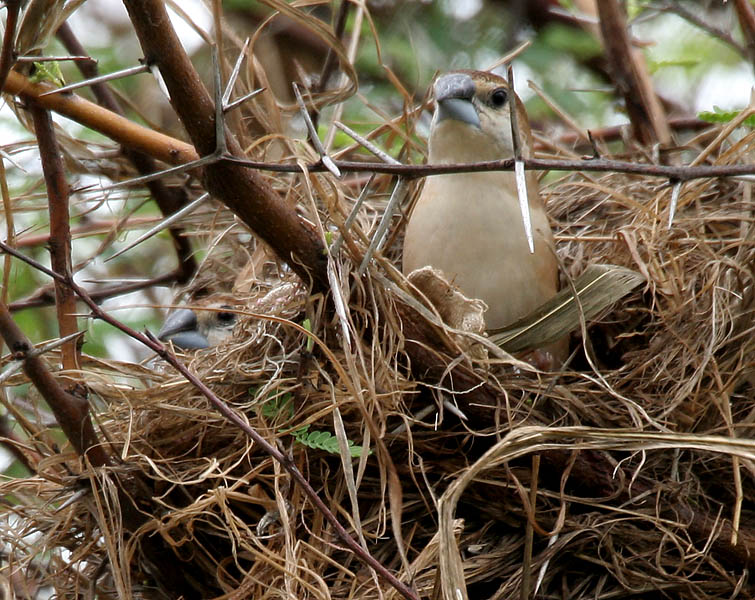 Indian Silverbill or White-throated Munia Lonchura malabarica - Hindi: Charchara, Charga, Charakka, Pidda, Pun: Chittgali munia, Ben: Piduri, Sar munia, Guj: Pavai munia, Munia, Tapushiyu, Sweth kanth tapushiyu, Mar: Malmunia, Ta: Nellu-kuruvi, Te: Jinuwayi, Mal: Vayalatta, Kan: Bili kantada munia, Sinh: Wee-kurulla- at Pocharam lake, Andhra Pradesh, India.